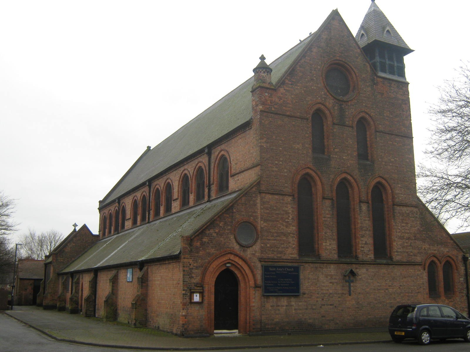 Saint Anne's Church, Whitecross Street and Leaper Street, Derby Saint Anne's Church on the junction of Whitecross and Leaper Street in the West End area of Derby. The Church is an Anglo-Catholic one.